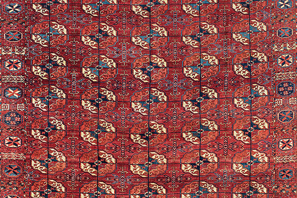 This early Tekke hali (main carpet) is a highlight of the sale; never having been exposed to damaging regular use, it is very well preserved (Lot 86, 2.26 x 2.00 m, estimate, €15,000 – 20,000). From auctioneer, : West Turkestan, c. 226 x 200 cm, 17th century, this early central carpet with brownish red ground and five horizontal rows of ten Tekke guls each, delicate “kurbaghe” secondary guls and starred octagons, is one of the best examples of this group in terms of design and colour technique. Whilst Tekke guls remained virtually unchanged over the course of the centuries, this piece displays an unusual border with octagonal “shelpe” guls and their intermediate ornaments. Unlike the traditional small four stars, the shelpe motifs are in this case decorated with one large eight-rayed star. Only two other carpets with similar borders are known to us. One fragment was sold at Sotheby’s on the occasion of the Thompson Collection sale. Another carpet with an almost identical border has been published in “Wie Blumen in der Wüste”, where this shelpe gul with one star was subsequently chosen as the logo of the 7th International Conference on Oriental Carpets (ICOC). Despite its old age, this khali is in good condition with slight traces of usae, especially in the upper section, and newly overcast side edges. No significant repairs can be discerned. Both ends have been slightly reduced, with small kilim remains at the lower left end. Further reading: Auction catalogue Sotheby's 1993, Rugs and Carpets, Turkmen and Antique Carpets from the collection of Dr. and Mrs. Jon Thompson, lot 12; Catalogue of the exhibition “Wie Blumen in der Wüste”, on the occasion of the 7th International Conference on Oriental Carpets (ICOC), Museum für Völkerkunde, Hamburg, no. 20. Specialist: Wolfgang Matschek